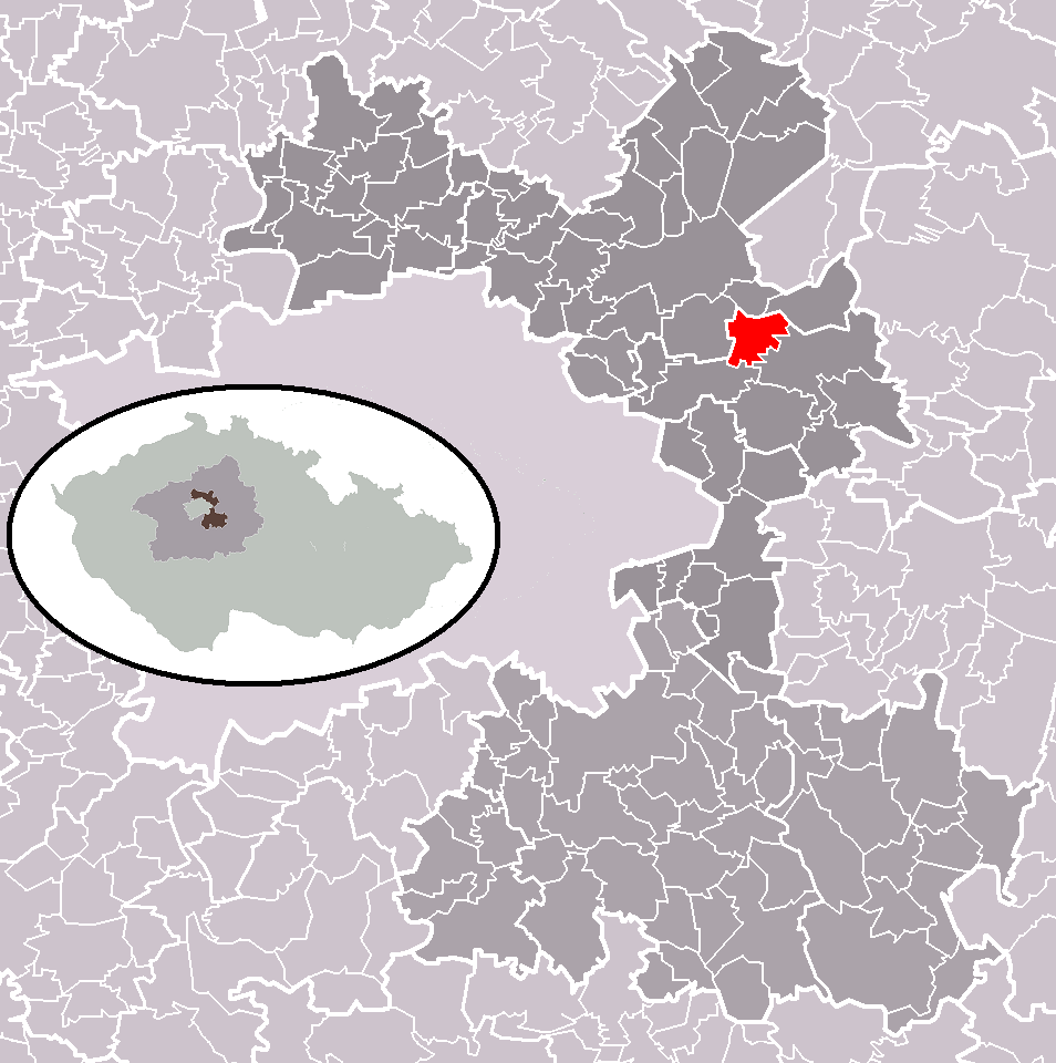 Location of Lázně Toušeň market town within Prague-East District and administrative area of Brandýs nad Labem-Stará Boleslav as a Municipality with Extended Competence.